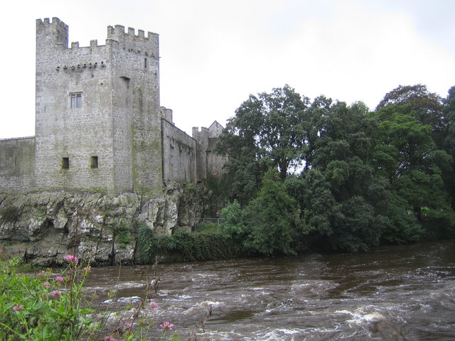 Cahir Castle and the River Suir Dating from 1142 and one of the largest castles in Ireland, Cahir was built on a rocky island in the River Suir.